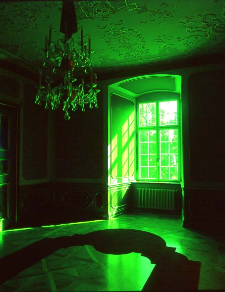 art installation by Bruno Kurz 3